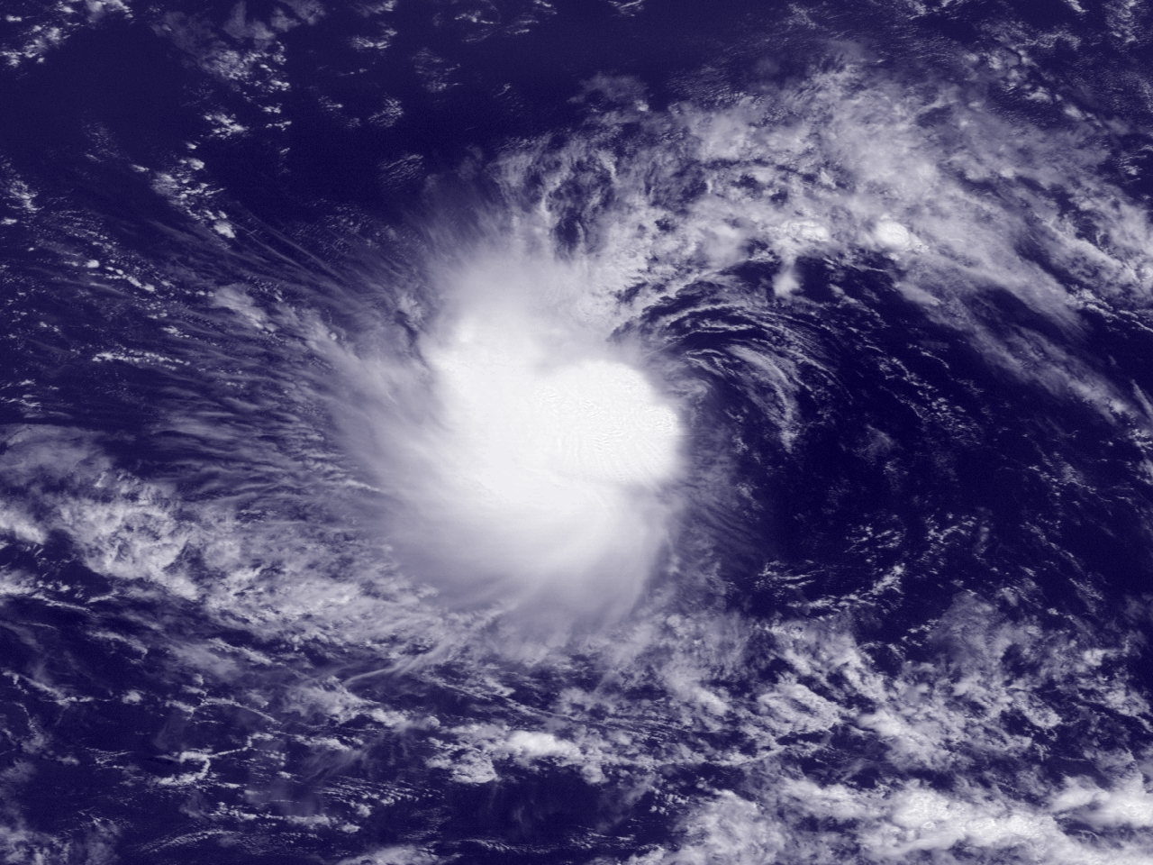 Tropical Storm Ana on August 12, 2009 with winds of to 40 mph and a pressure of 1005 mbar.